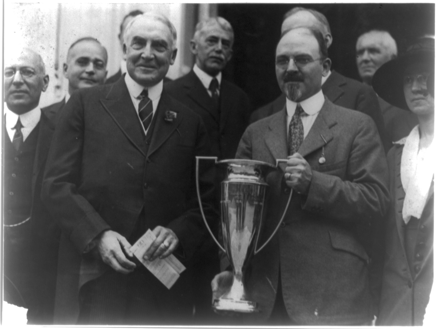 Title: As Honorary Vice President of the National Tuberculosis Assn., President Harding presented to Dr. Frank Ballou, Supt. of Schools, the cup offered for the schools having the largest enrollment based on population Abstract/medium: 1 photographic print.